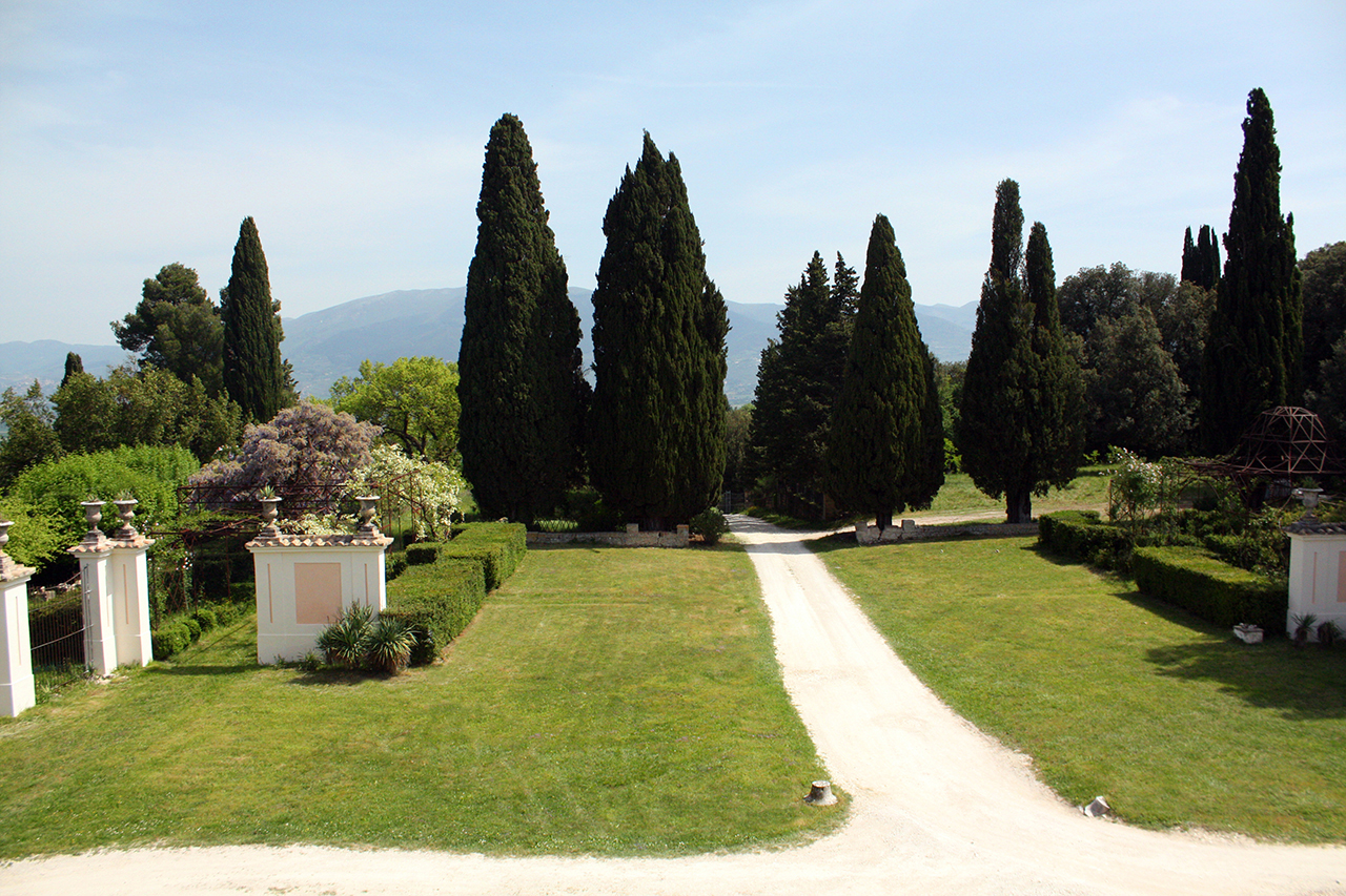 Park in front of the facade of Villa Pianciani.